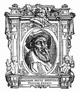 Illustratio from "Le Vite" by Giorgio Vasari, edition of 1568. For the artist portrayed see filename